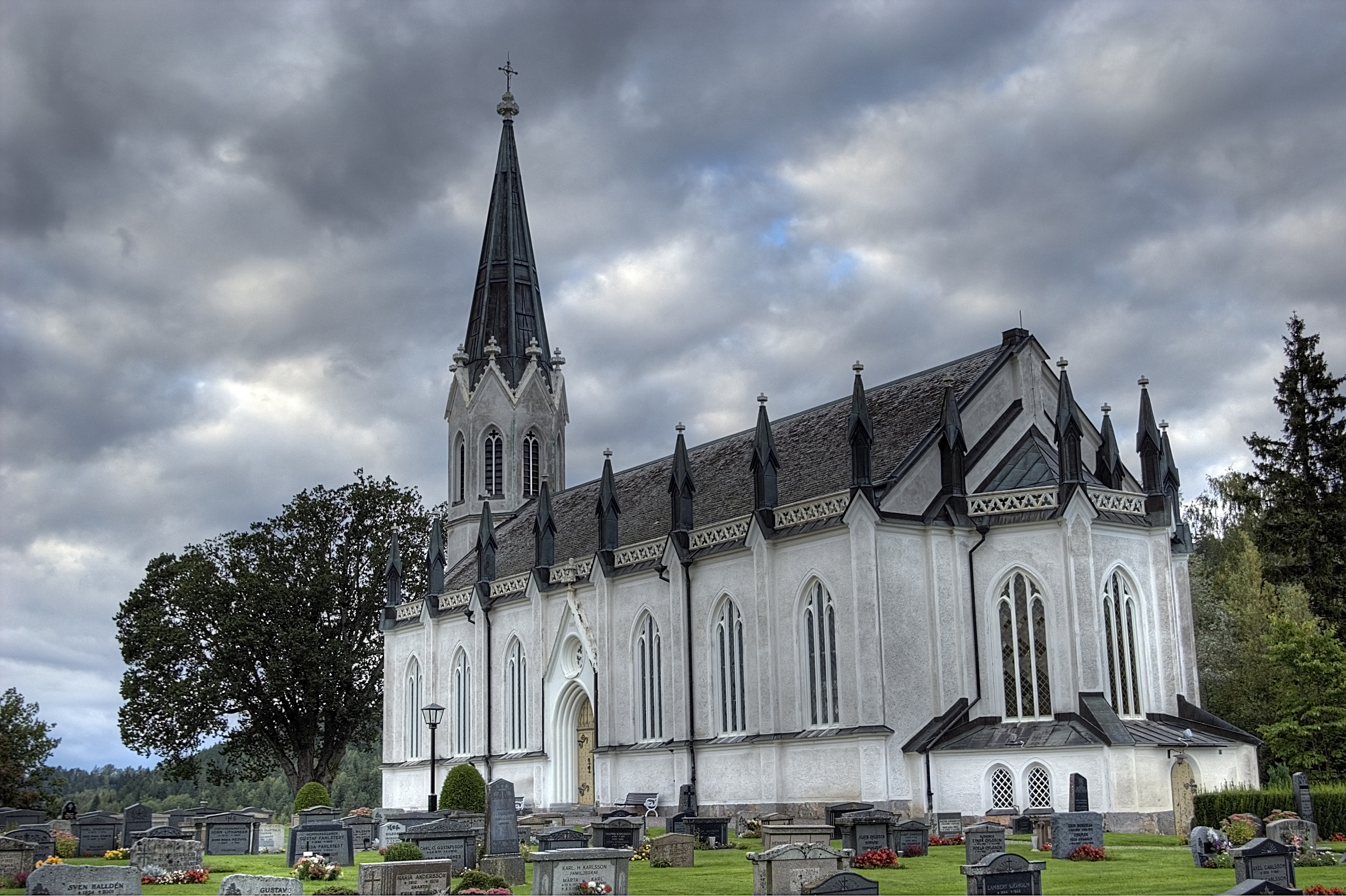 Gärdserum church in Östergötland, Sweden.